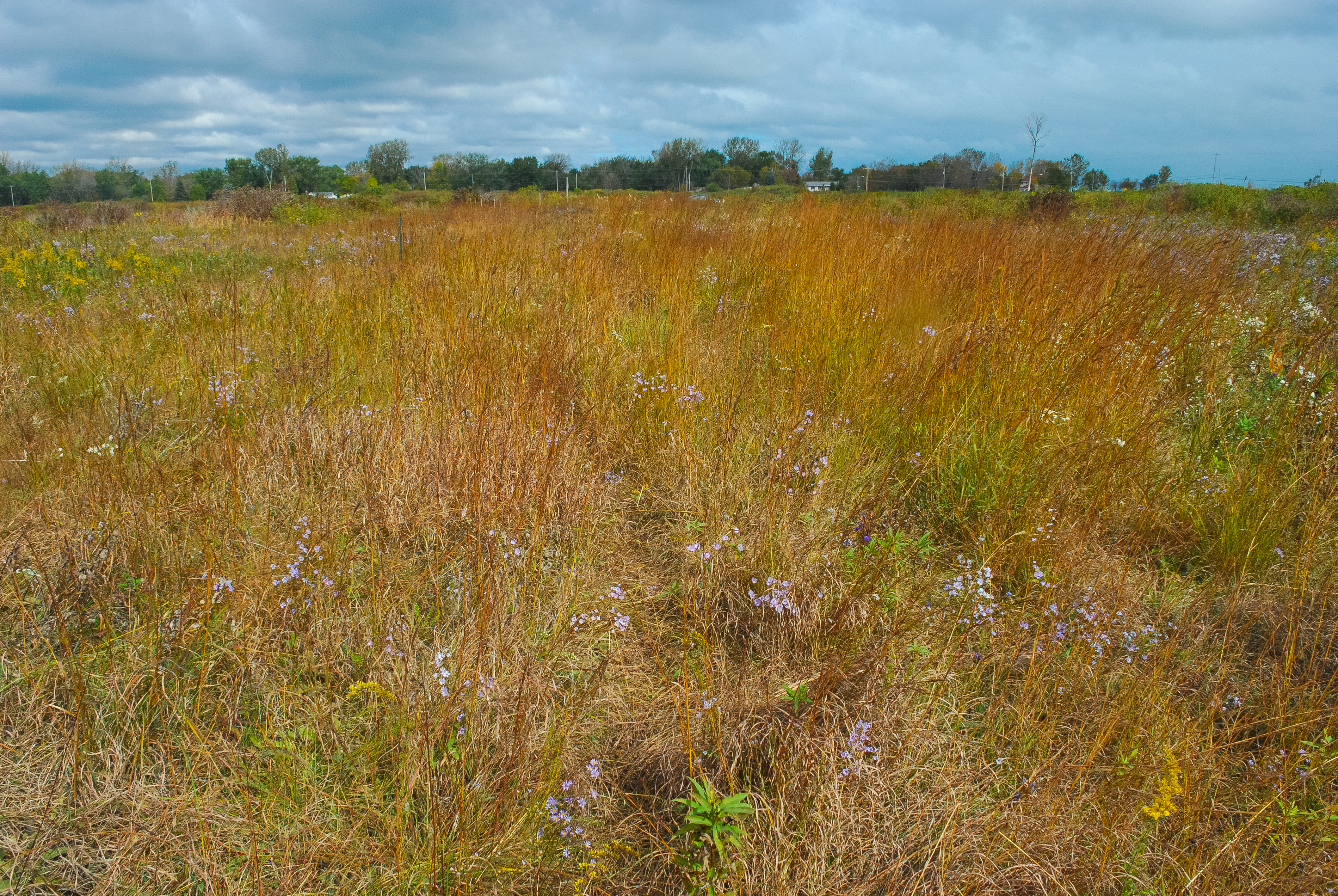 Chiwaukee Prairie Wisconsin State Natural Area #54 Kenosha County